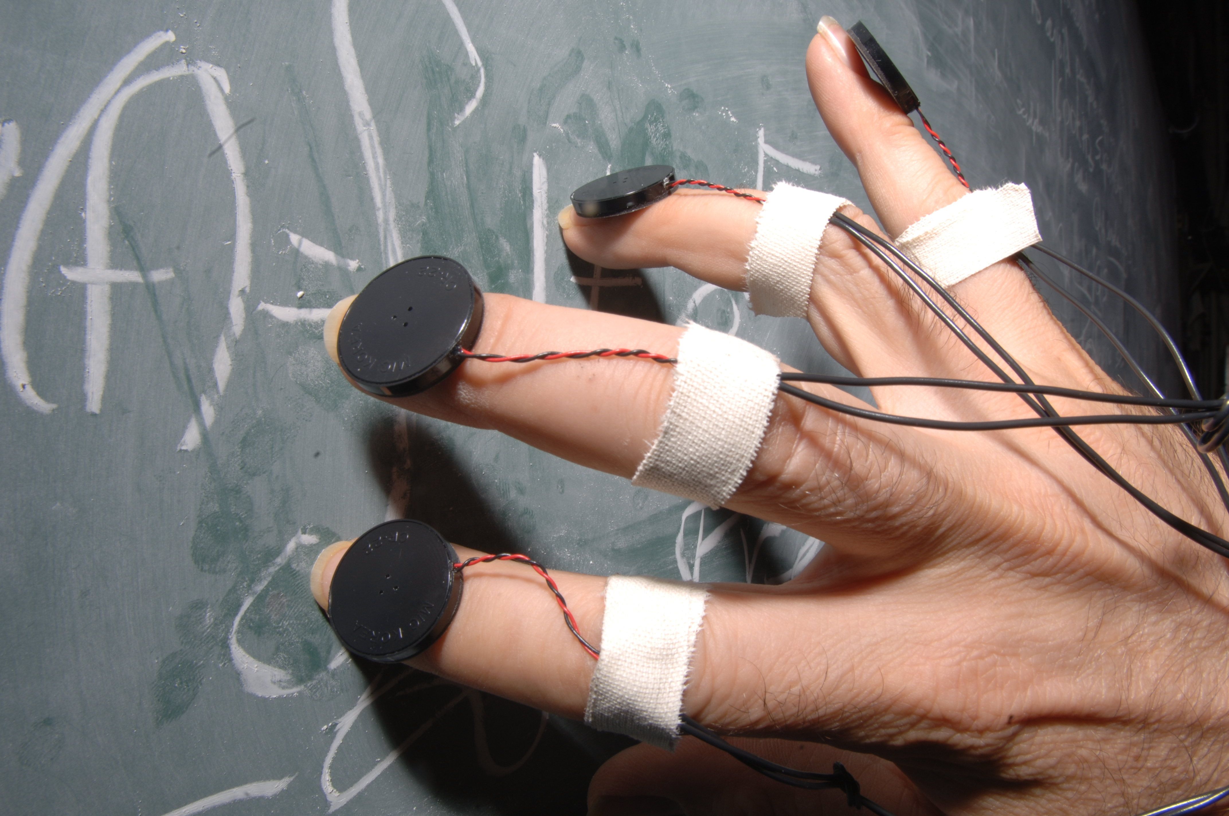 Self-portrait of my right hand doing "Scratch Input" on a chalkboard.